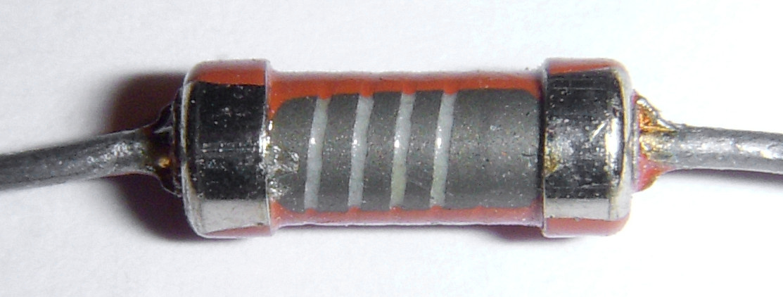 Carbon resistor TR212, 1 kiloohm, only partially coated as manufacturing mistake, carbon layer shown.